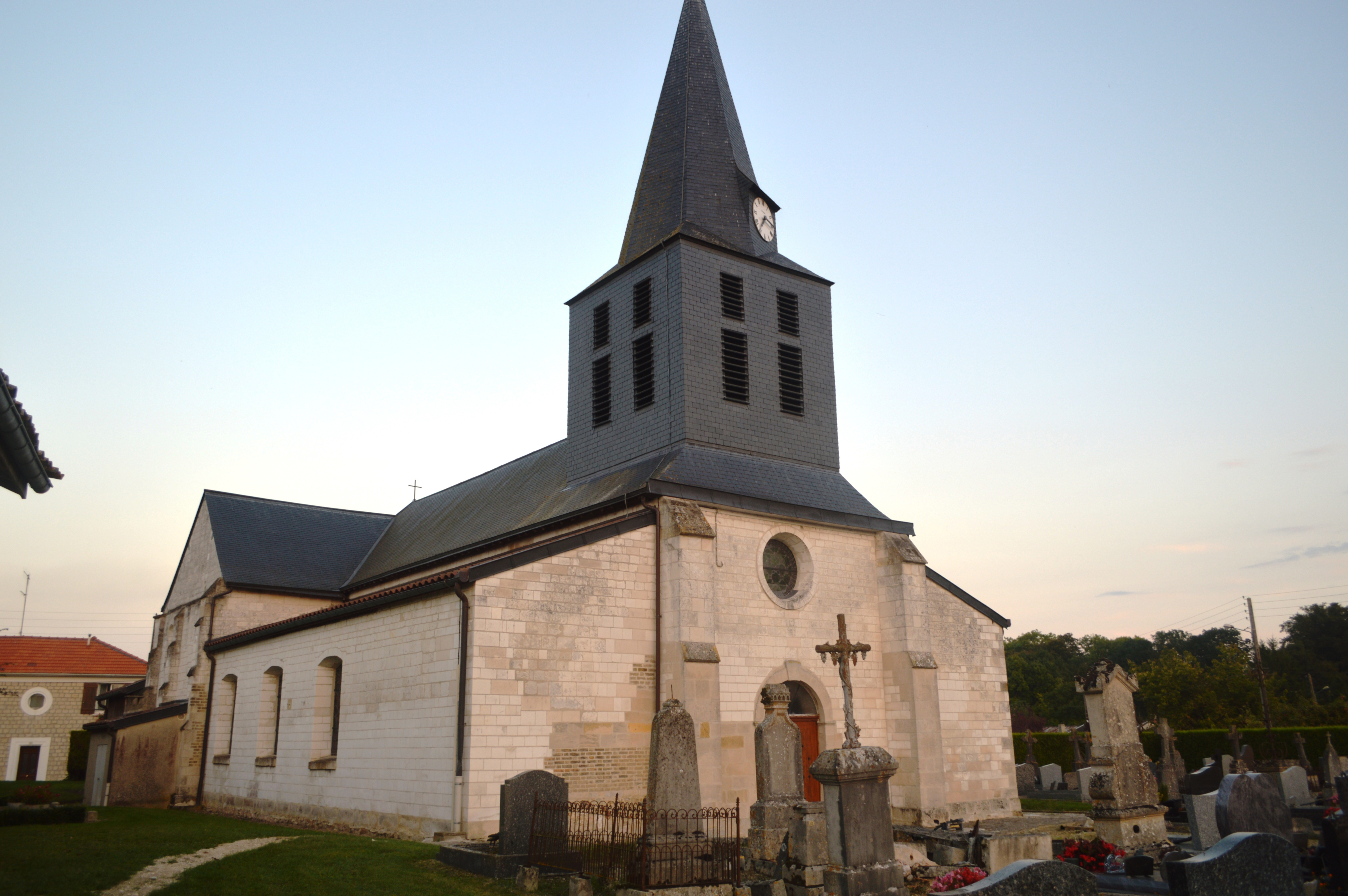 Bussy-le-Château Church